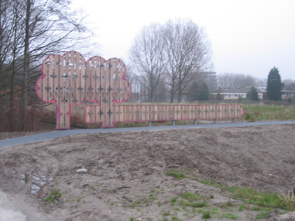 Entrance to Arboretum Rotetrdam Hoogvliet/The Netherlands